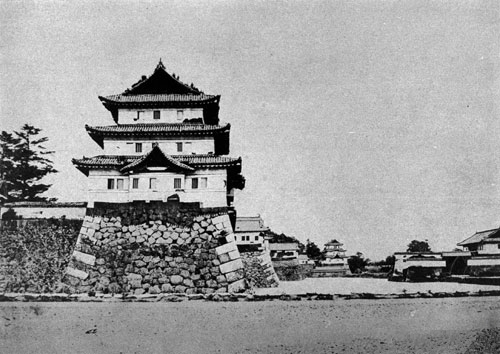 Honmaru Tatsumi yagura (South watch tower, front), Kikyou-mon (bellflower gate, right), Ninomaru Tatsumi yagura (center back) in Edo Castle. Pictured in 1868).